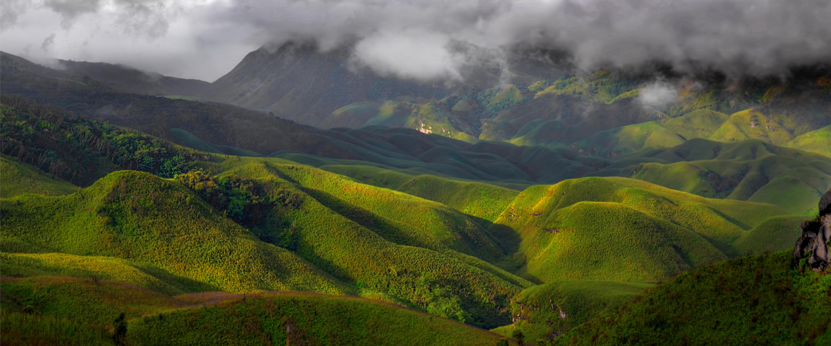 A view of Dzukou Valley from the base Camp